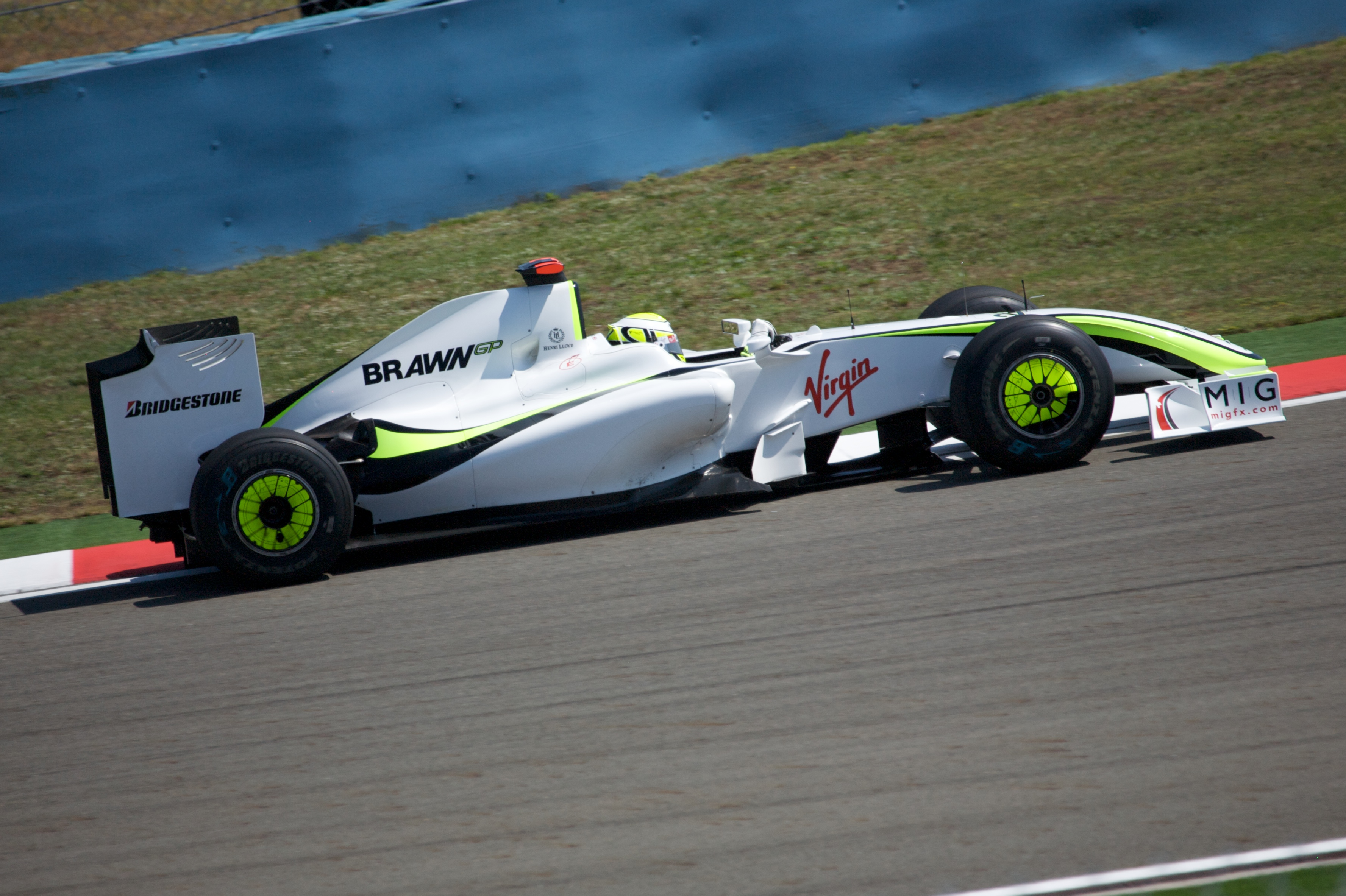 Jenson Button driving for Brawn GP at the 2009 Turkish Grand Prix.